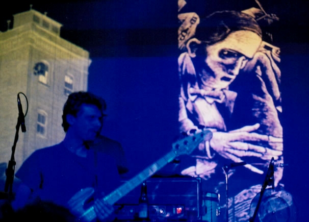 Godspeed You Black Emperor! performing live on London, England. November 2000 Photo by Justin Lynham.